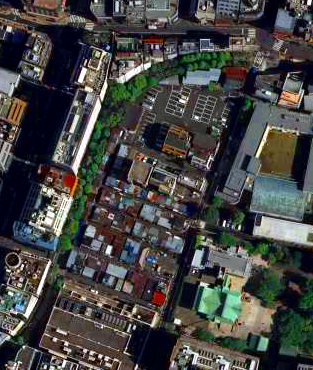 The Geographical Survey Institute took the aerial photograph in Shinjuku Ward, Tōkyō Metropolis on April 27, 2009.